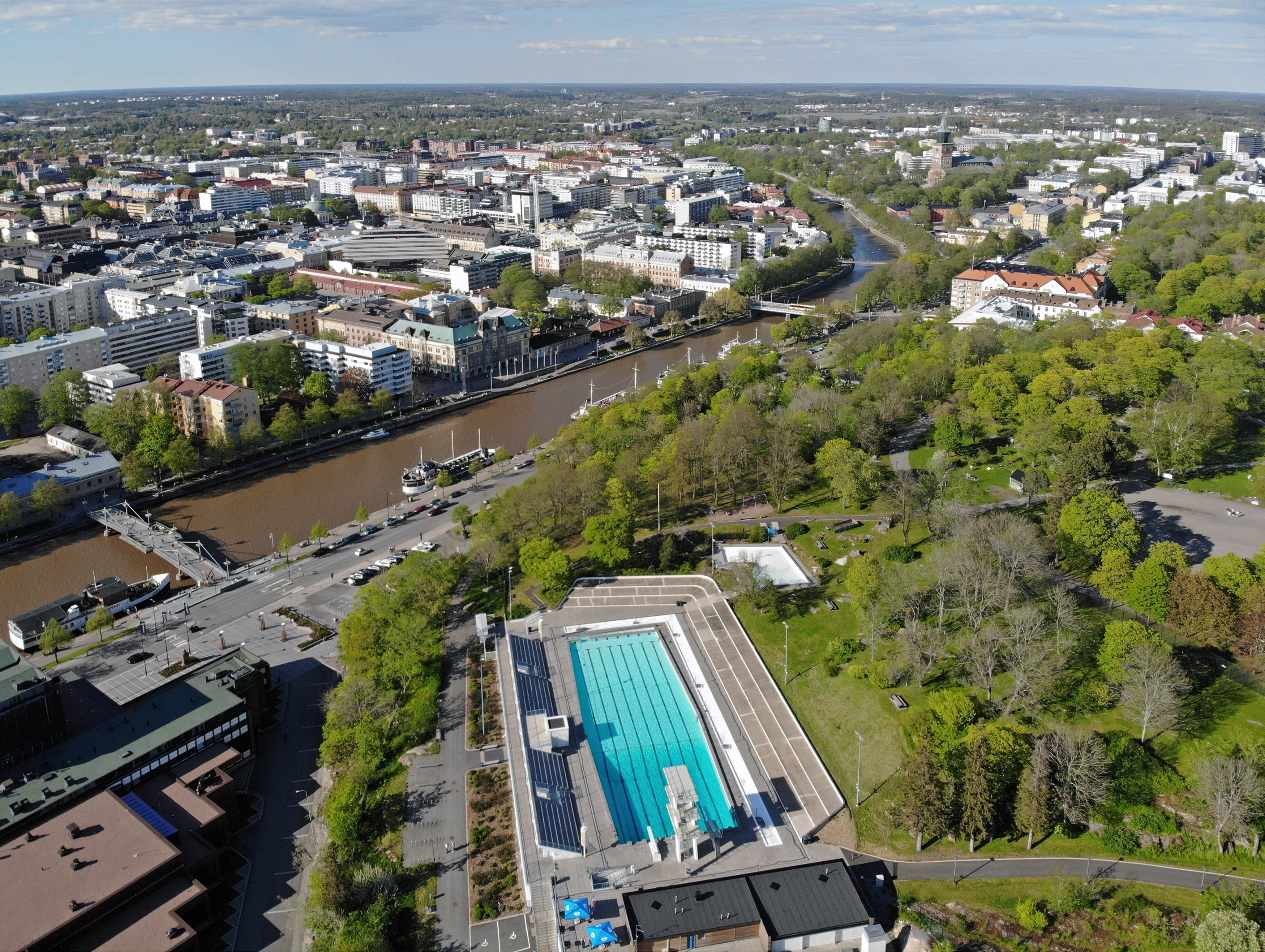 Samppalinna outdoor swimming stadium, Turku.